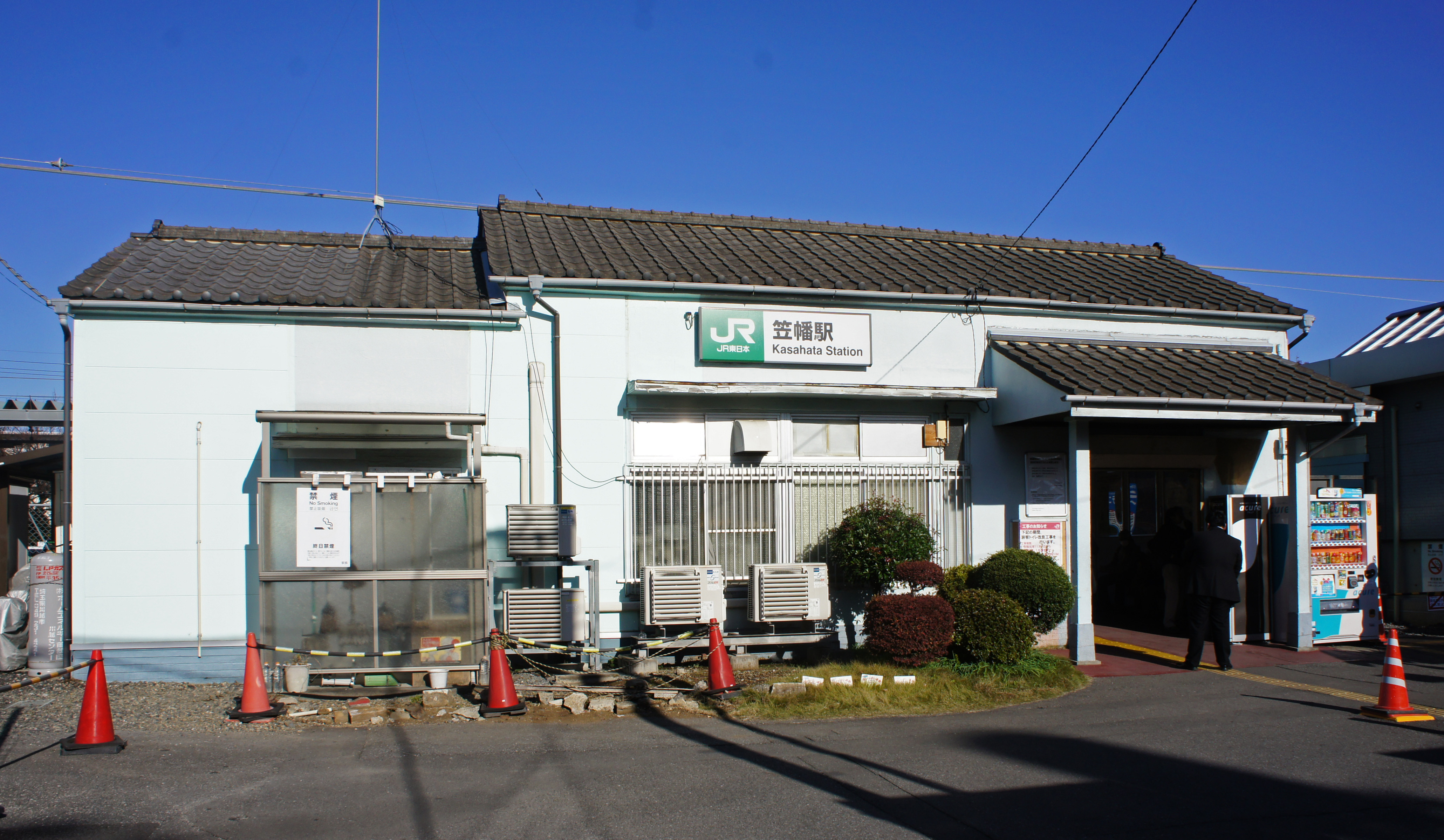 Station building of JR Kawagoe-Line Kasahata Station